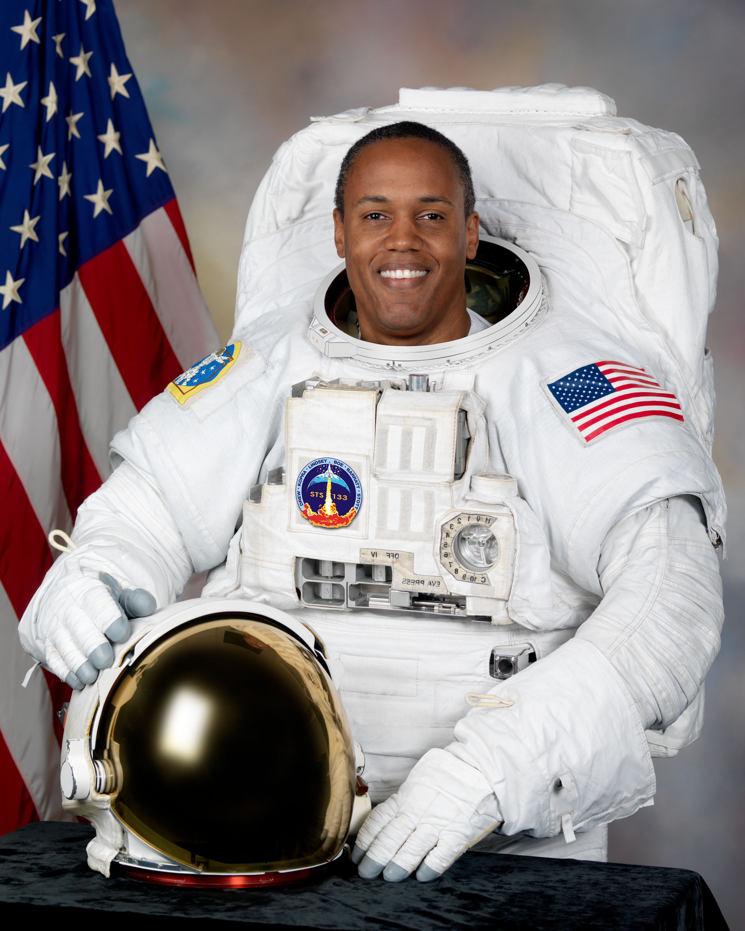 NASA astronaut B. Alvin Drew Jr., mission specialist.